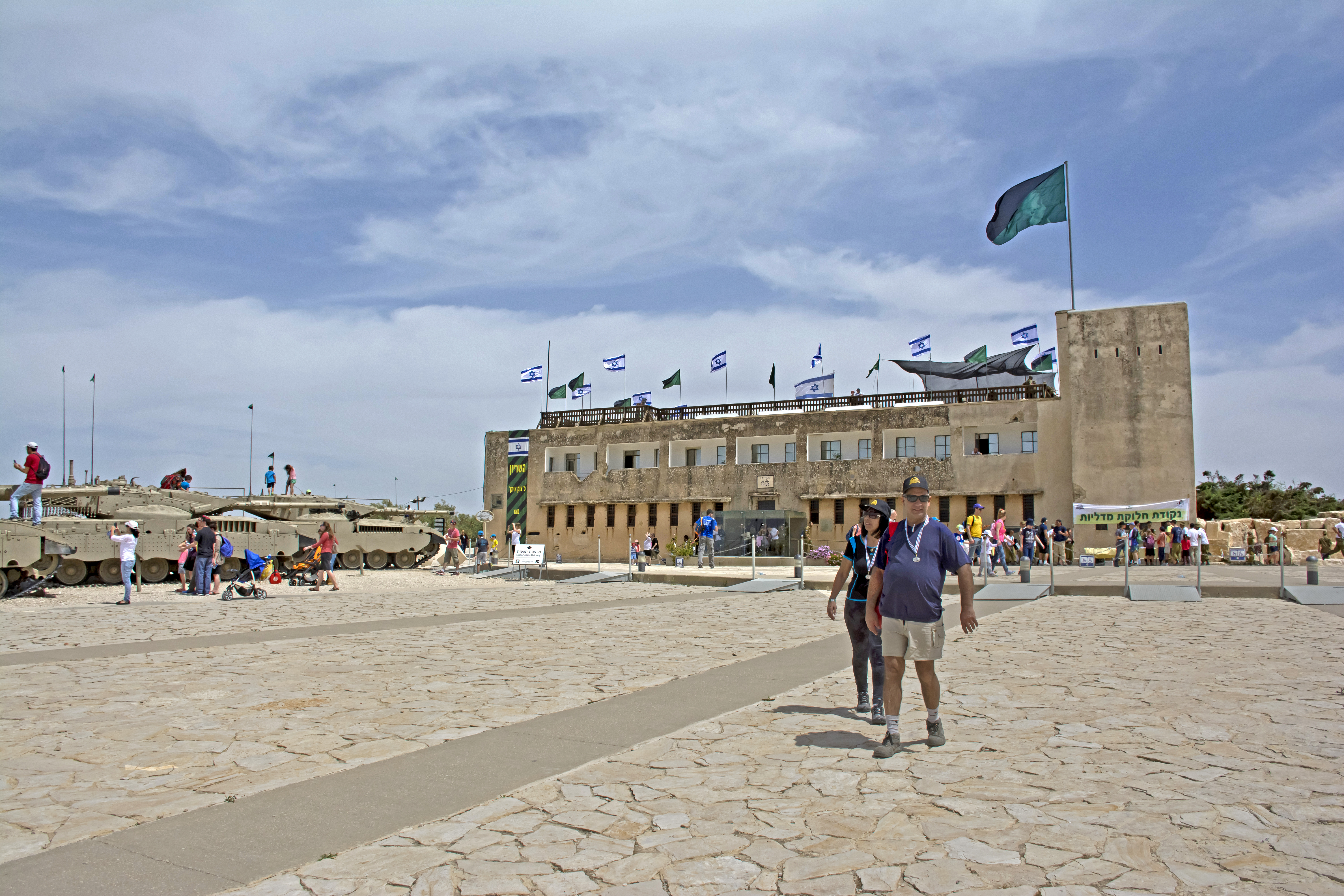 Yad LaShiryon (Armored Corps Memorial), Latrun, Israel